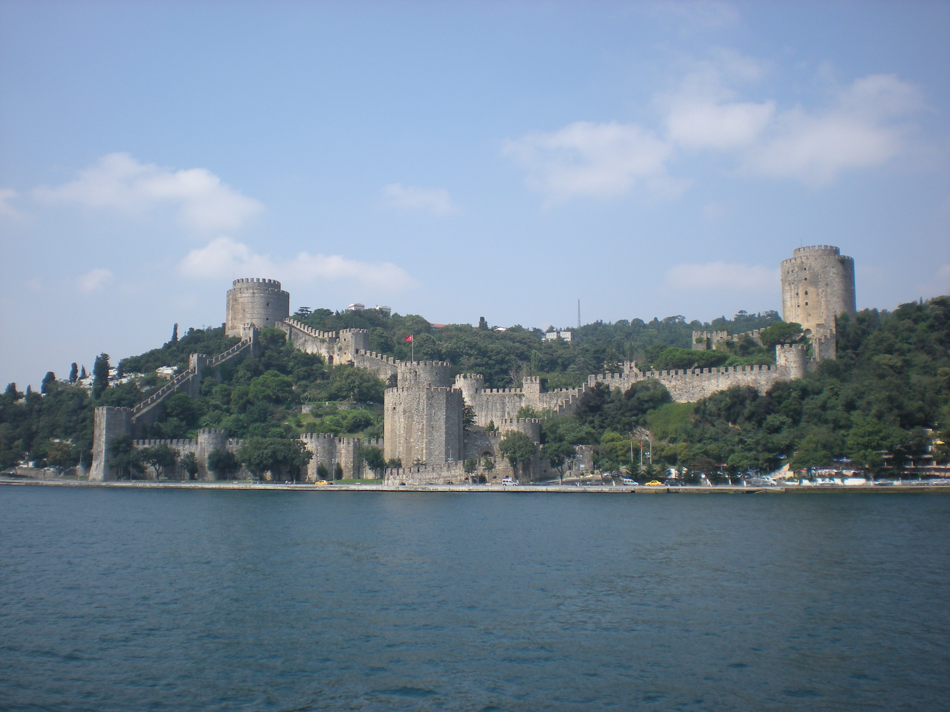 Rumeli Hisarı viewed from the North-East